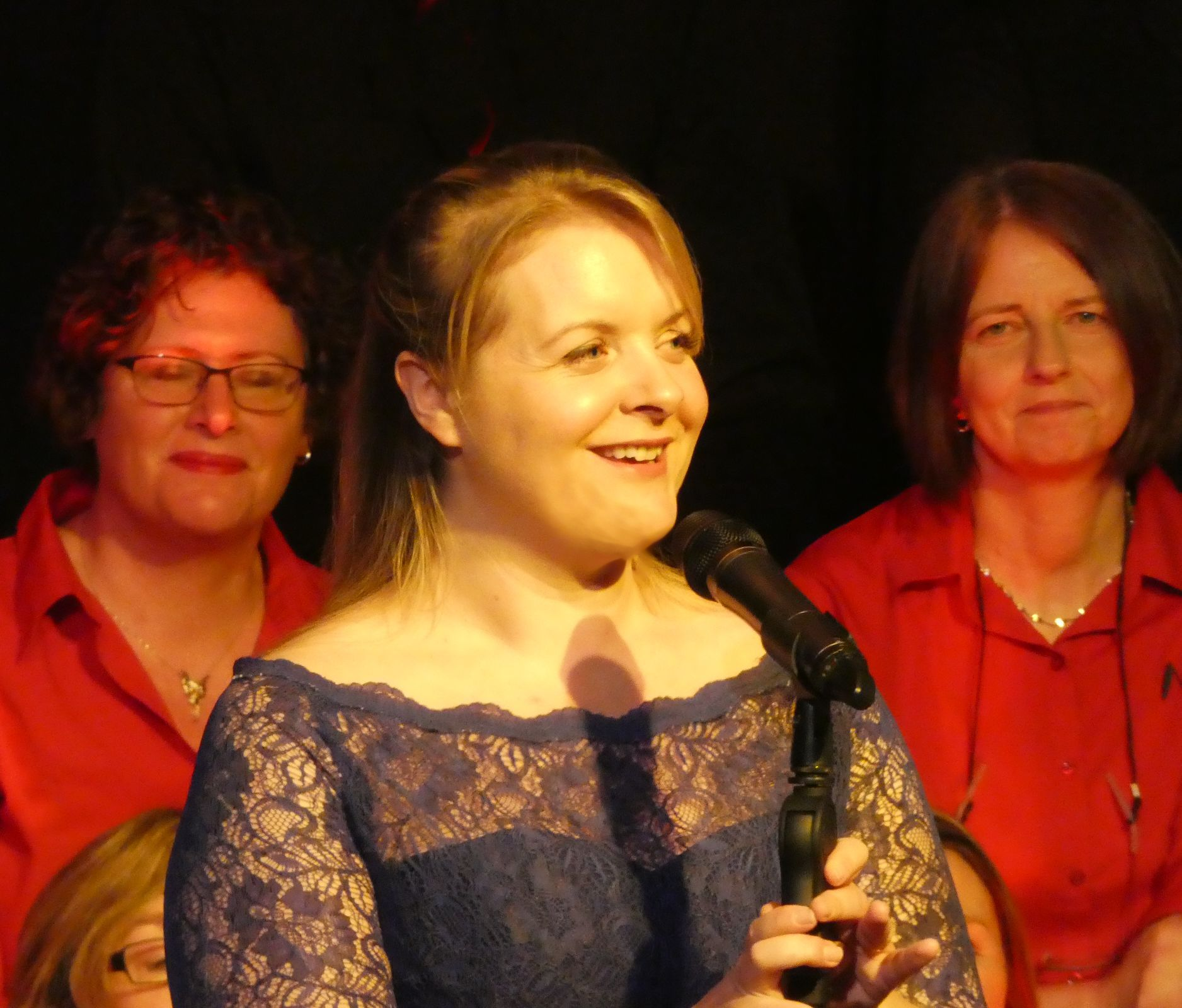 Tumaini Jipya is a charity supporting projects in the subsaharan region